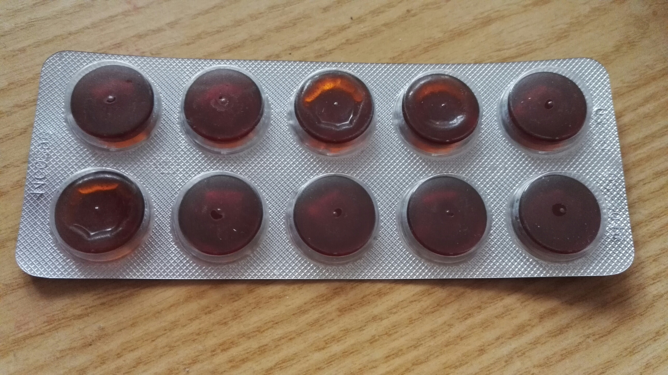 used to supress dry cough